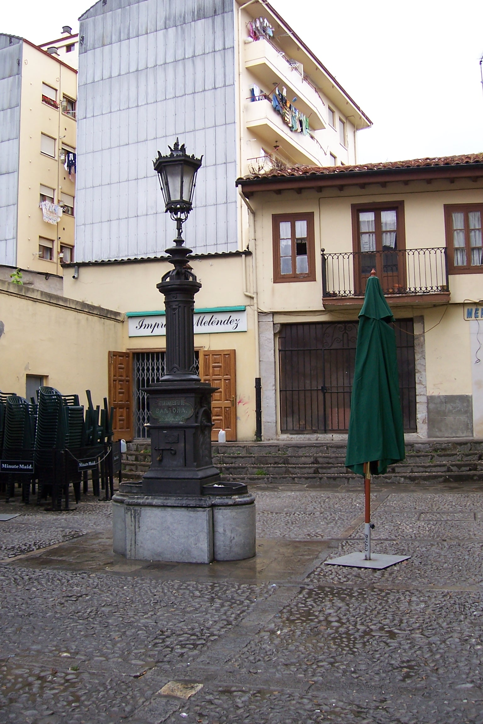 Santoña Cantabria (Spain). Fountain at the small Square of the Constitution (former the Postal Square). It was located at the Plaza de San Antonio.